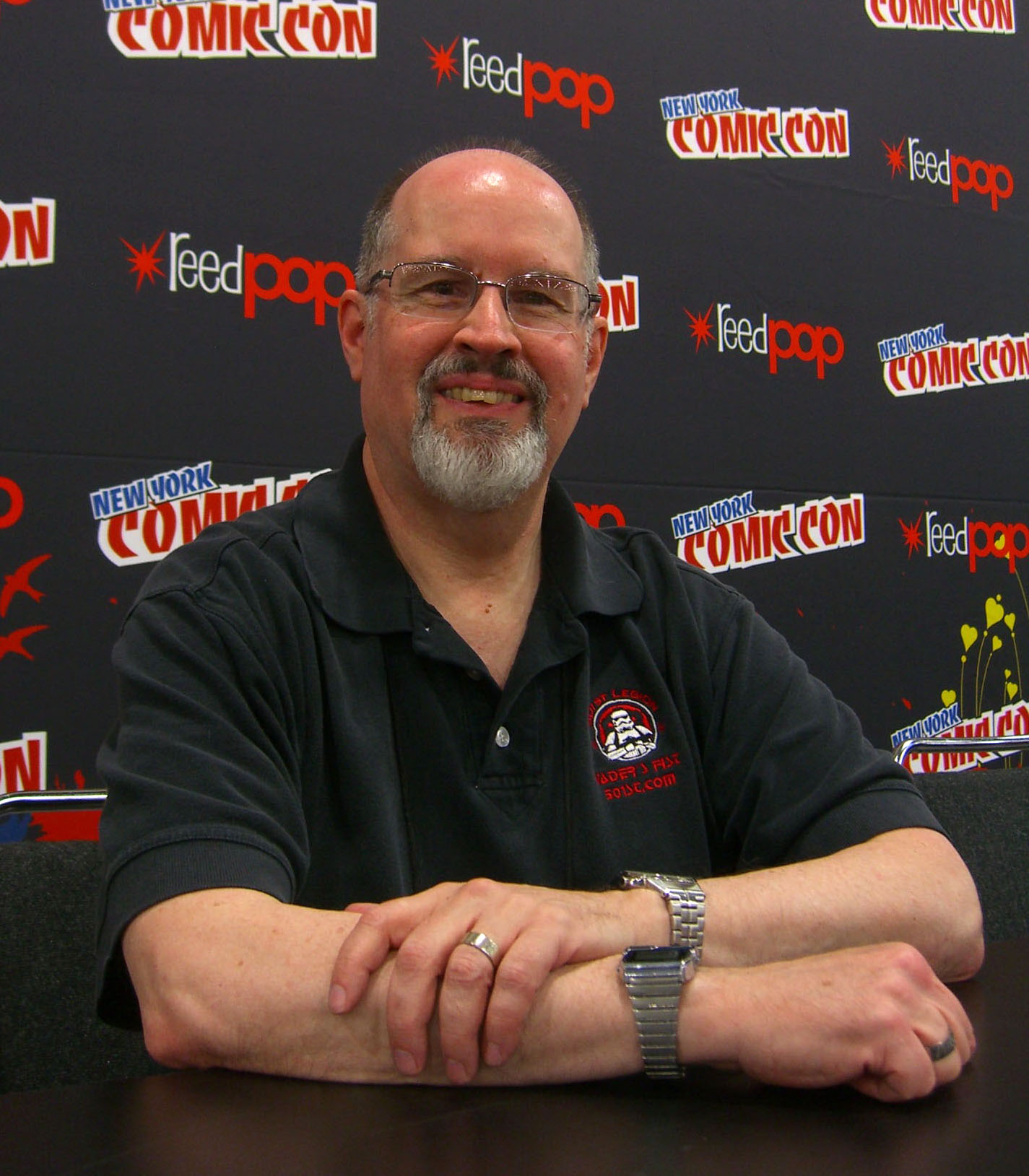 Novelist Timothy Zahn on Day 2 of the 2012 New York Comic Con, Friday October 12, 2012 at the Jacob K. Javits Convention Center in Manhattan. This photo was created by Luigi Novi. It is not in the public domain, and use of this file outside of the licensing terms is a copyright violation.